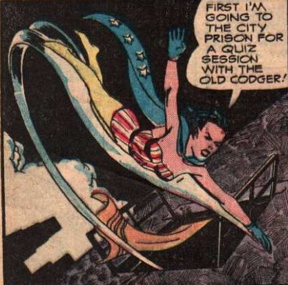 Interior artwork likely from Captain Flight Comics #8 or #9 (May & Sept. 1947) by an unknown artist.